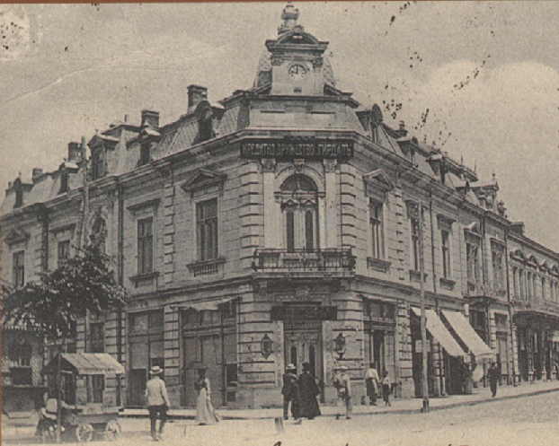 Photo of the office of "Girdap" and Silagi pharmacy